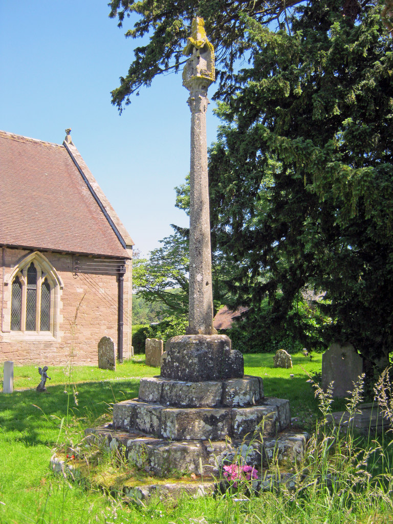 14th-century stone cross in St Mary's parish churchyard, Bitterley, Shropshire, seen from the southwest